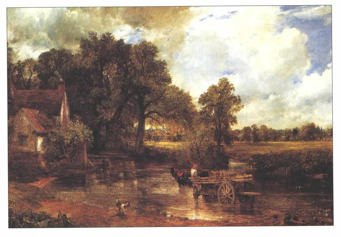 The Hay Wain